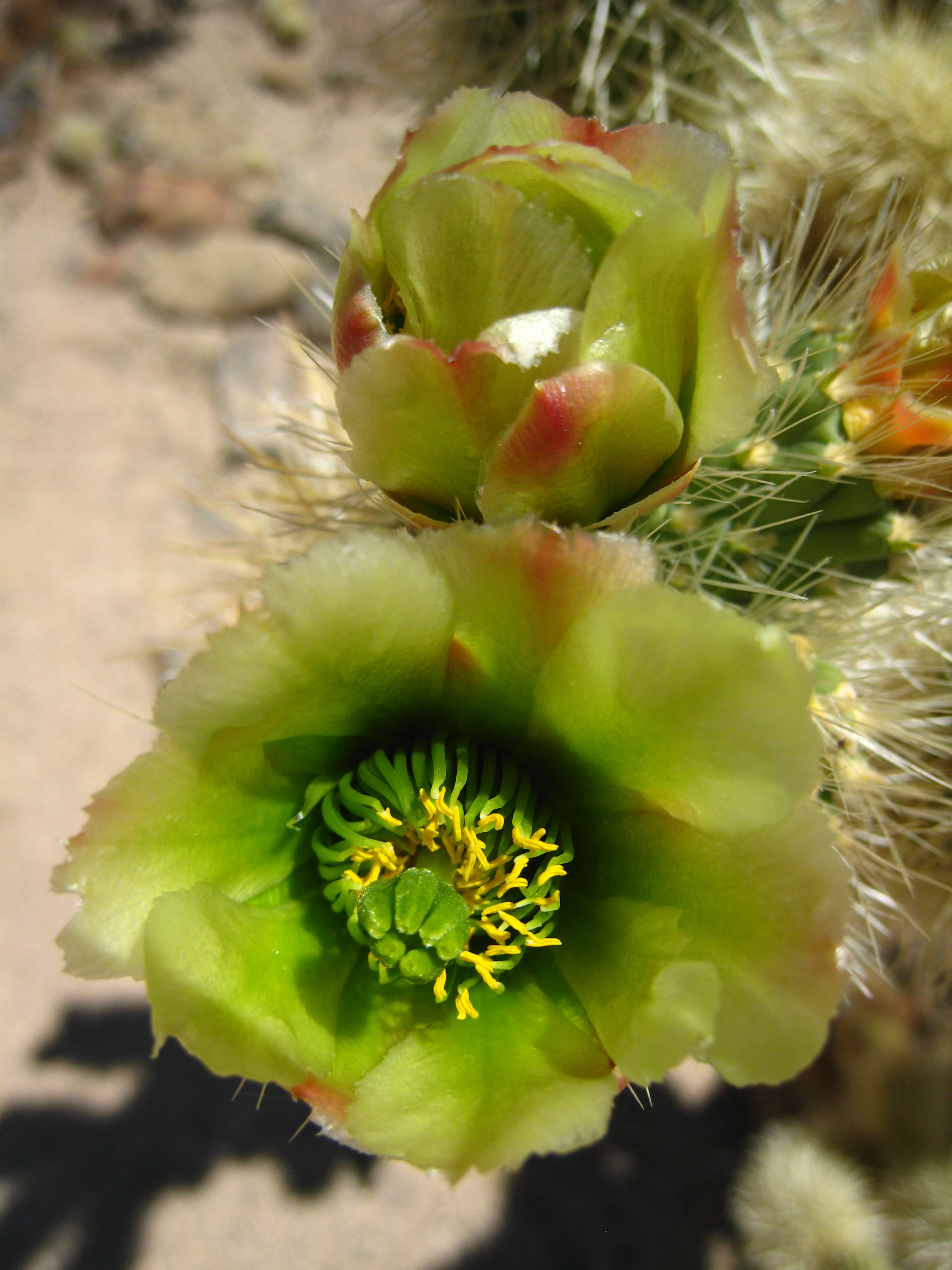 Yellow-green flower of the teddy-bear cholla (Cylindropuntia bigelovii) at the Cholla Cactus Garden, Joshua Tree National Park, CA.